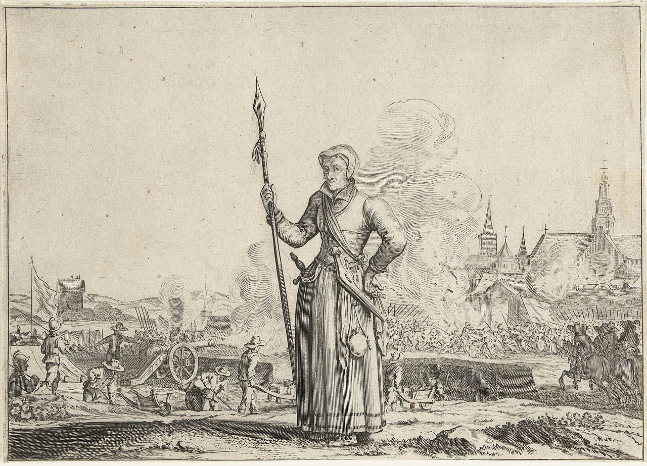 Kenau Simonsdaughter Hasselaer in front of the siege of Haarlem